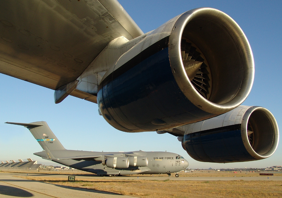 Brand new C-17 from under the wing of Polet Airlines' AN-124-100 RA-82075